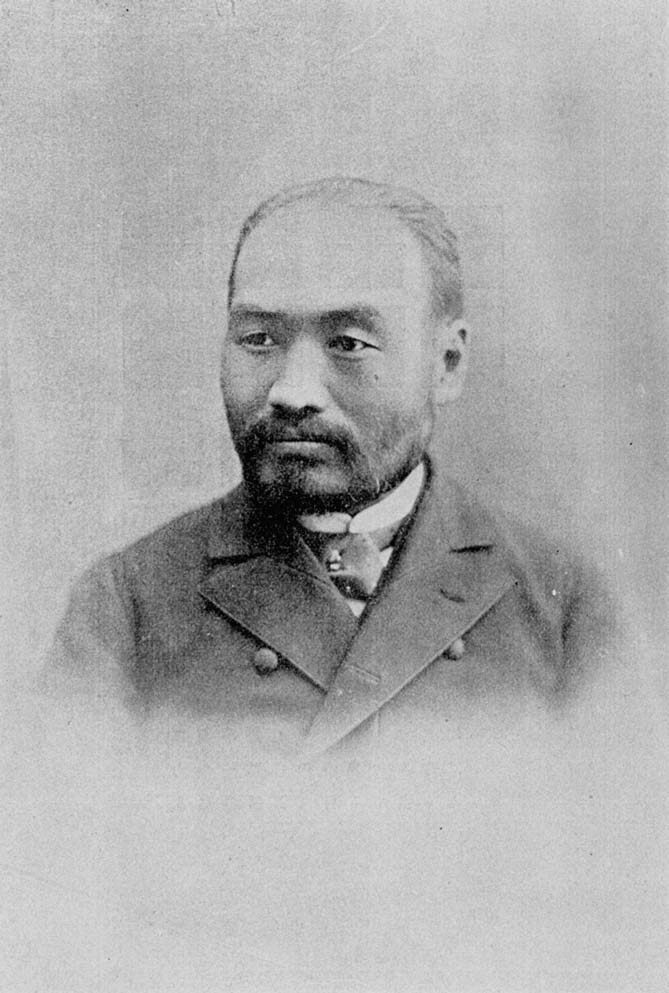 Late Mr. Hiromoto Watanabe.